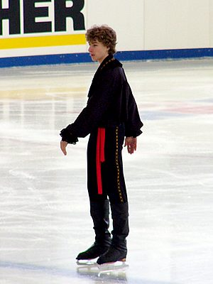 Kim Lucine during his free skate at the 2004 Junior Grand Prix event in Germany